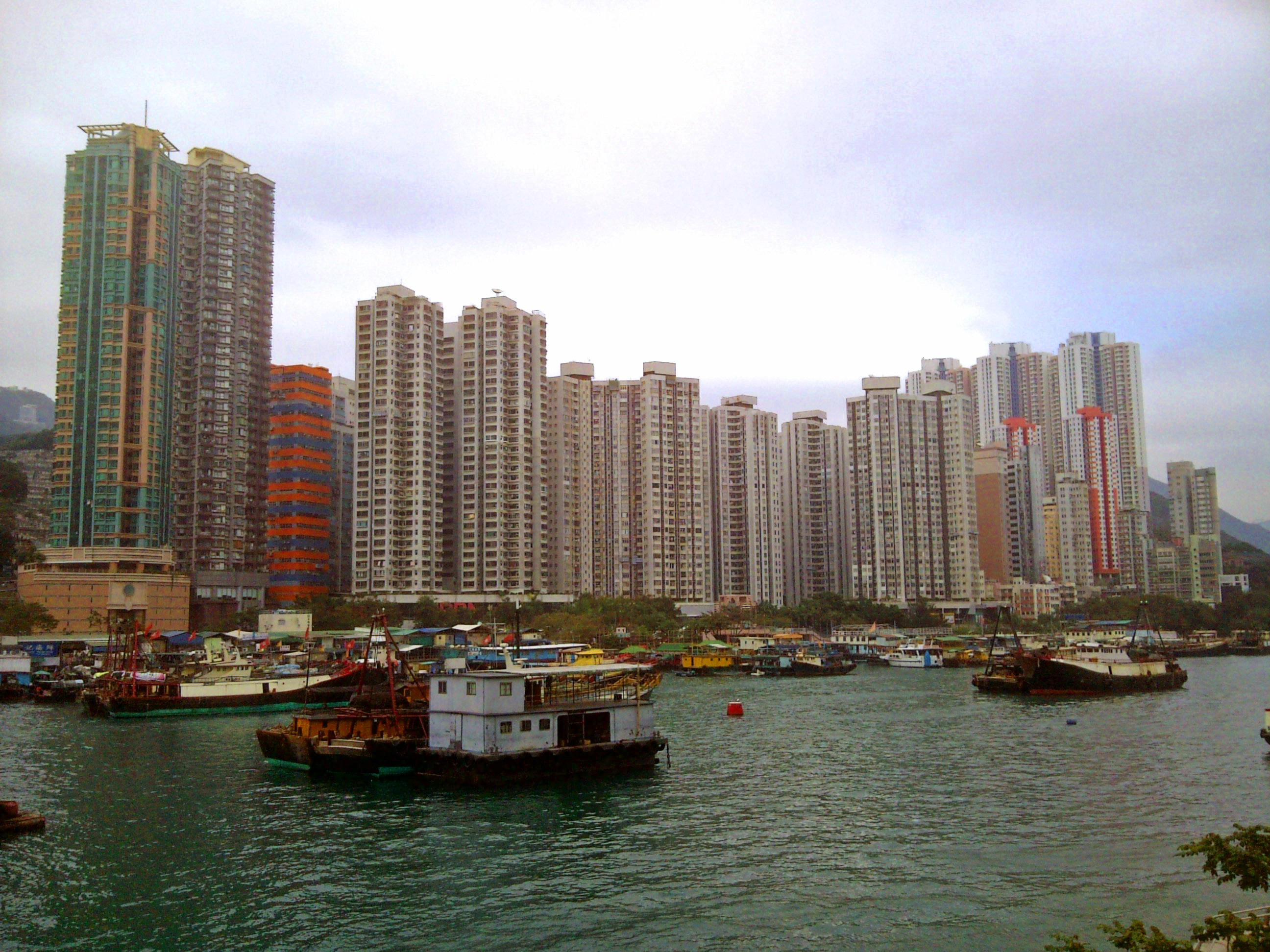 Aberdeen viewed from Ap Lei Chau